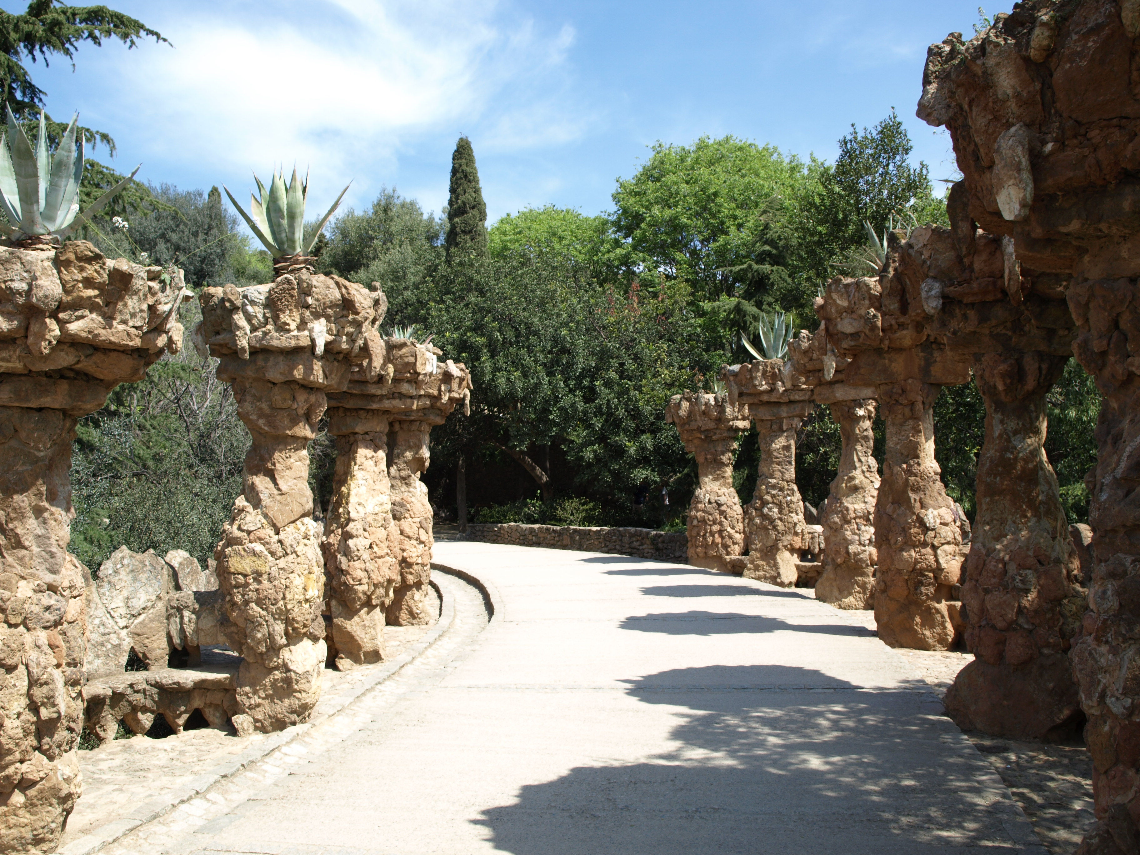 Columns in Park Güell, Barcelona, Spain